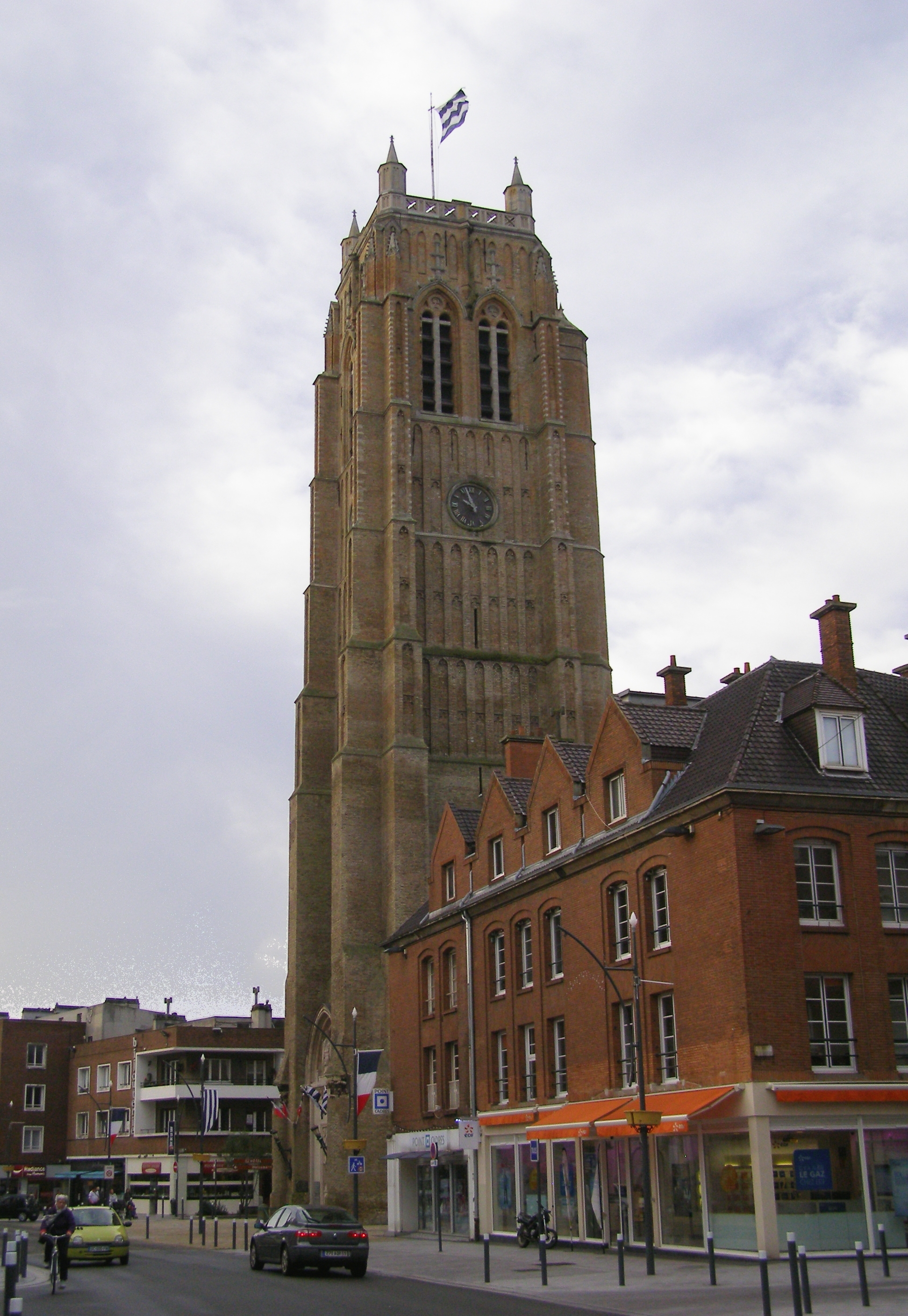 Dunkirk - St. Eligius church belfry